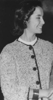 Patricia Shaw- actriz argentina